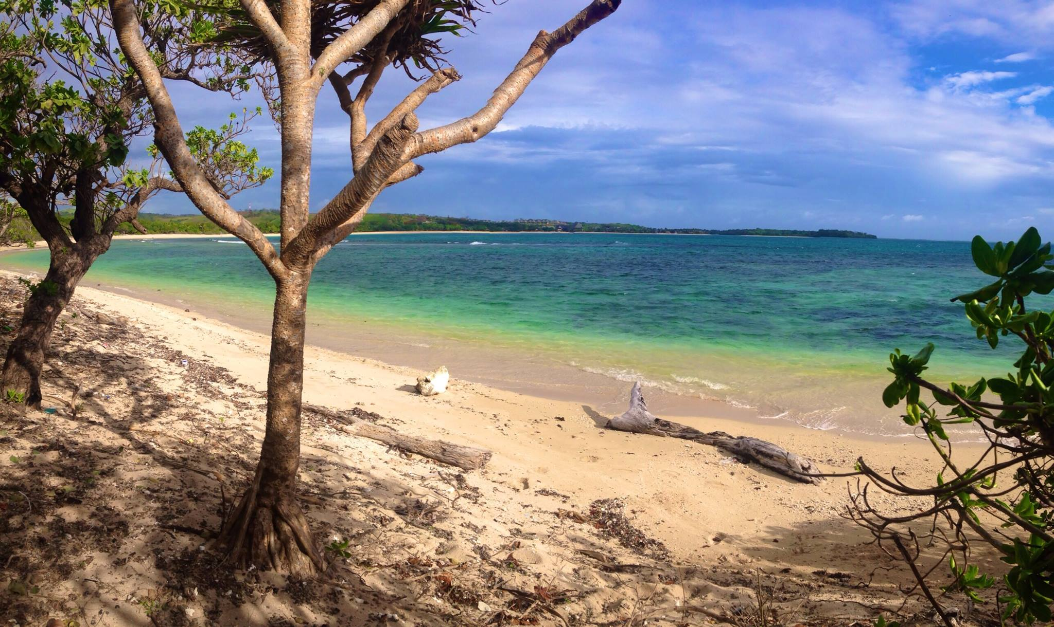 The View of a beach in Nadi.